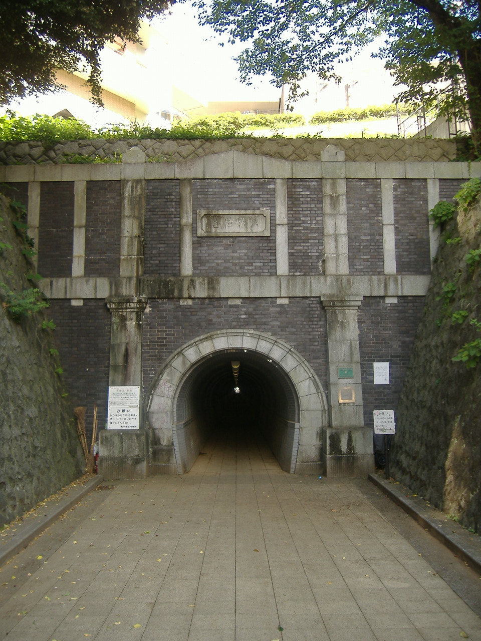 Ōhara tunnel(Yokohama, Japan)